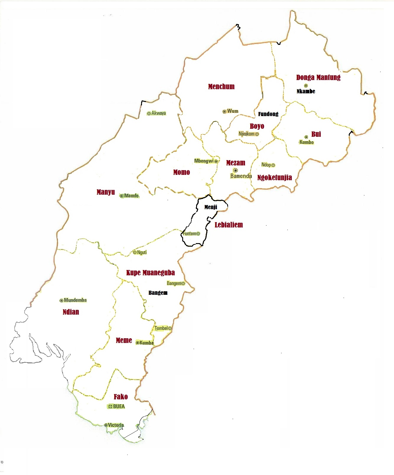 administrative structure of the Federal Republic of Ambazonia